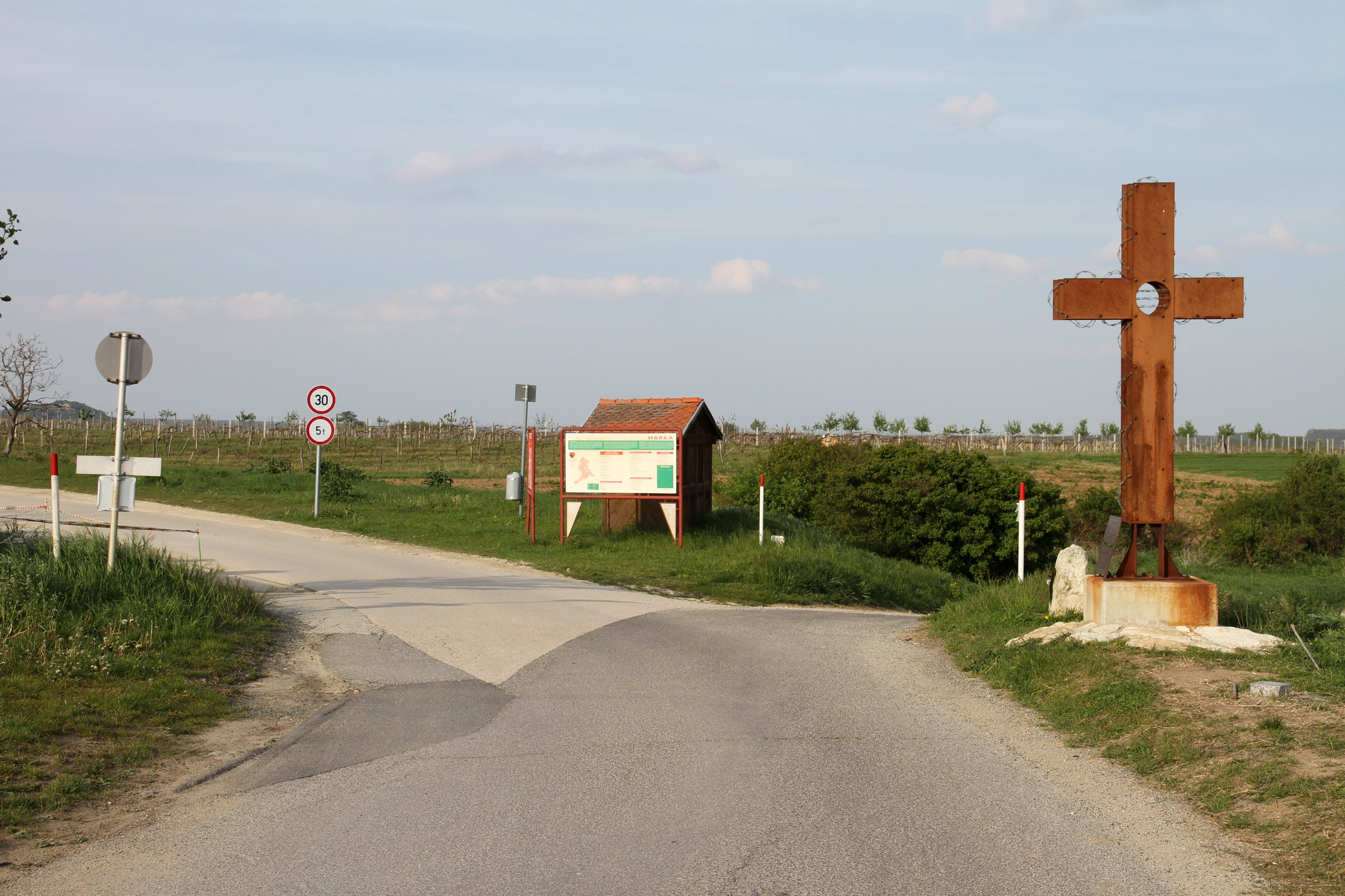 Austria-Hungary border - Neckenmarkt / Harka